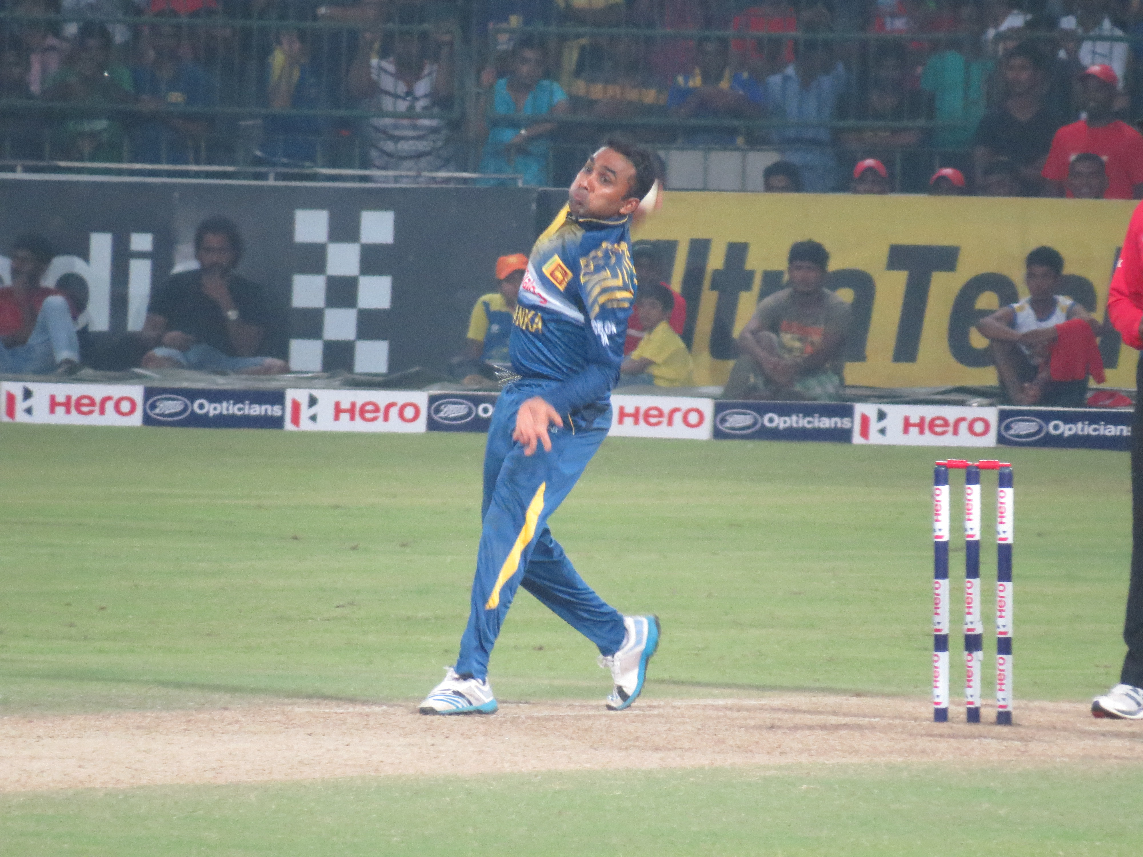 Mahela Jayawardene bowling against England in his final ODI in Sri Lanka